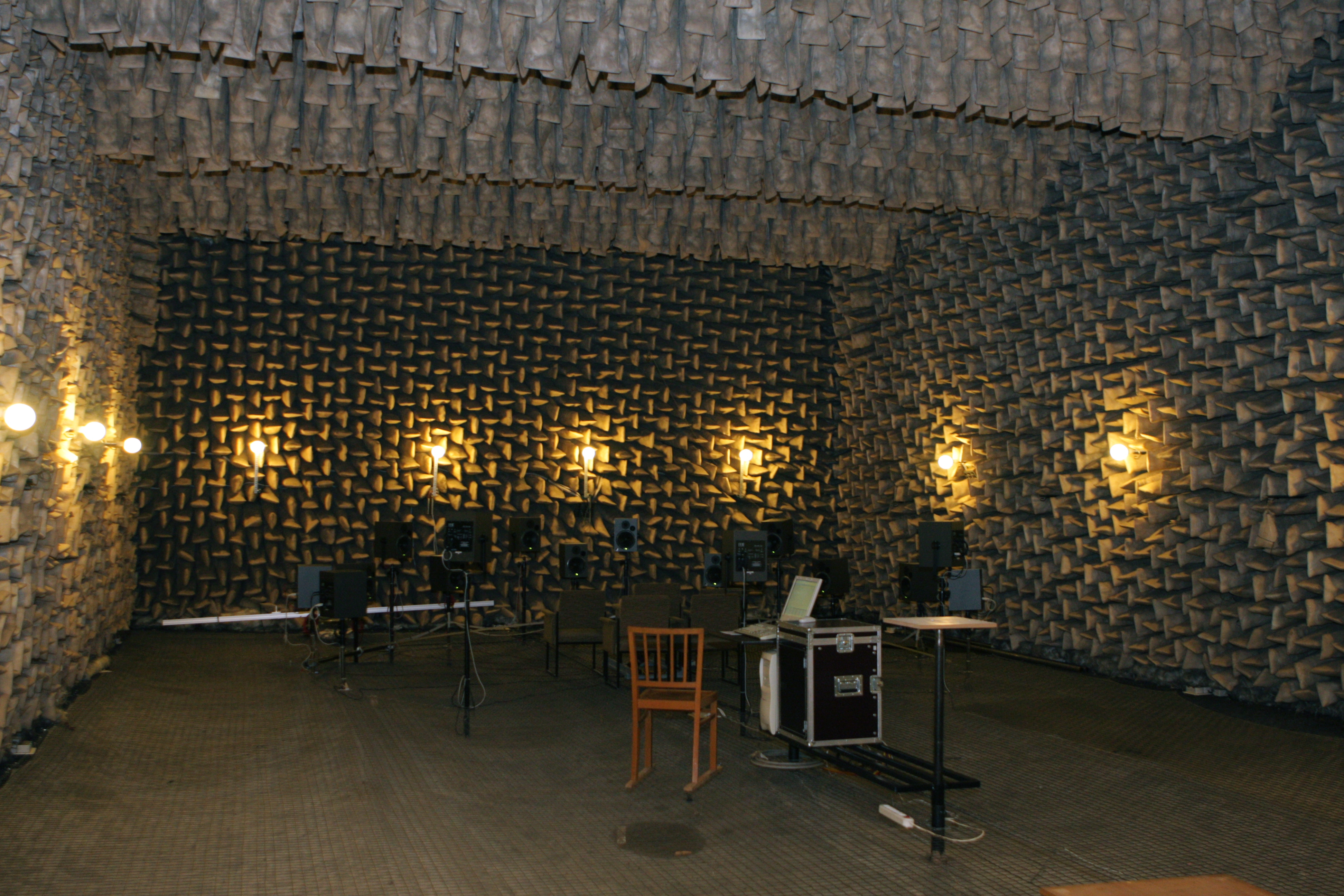 Anechoic room (free field room) of the Technische Universität Dresden absorber material on all walls and the ground (steel mesh for walking visible) 1000 m³ free volume, 2000 m³ complete volume in the Barkhausen building (Faculty of Electrical Engineering and Information Technology)